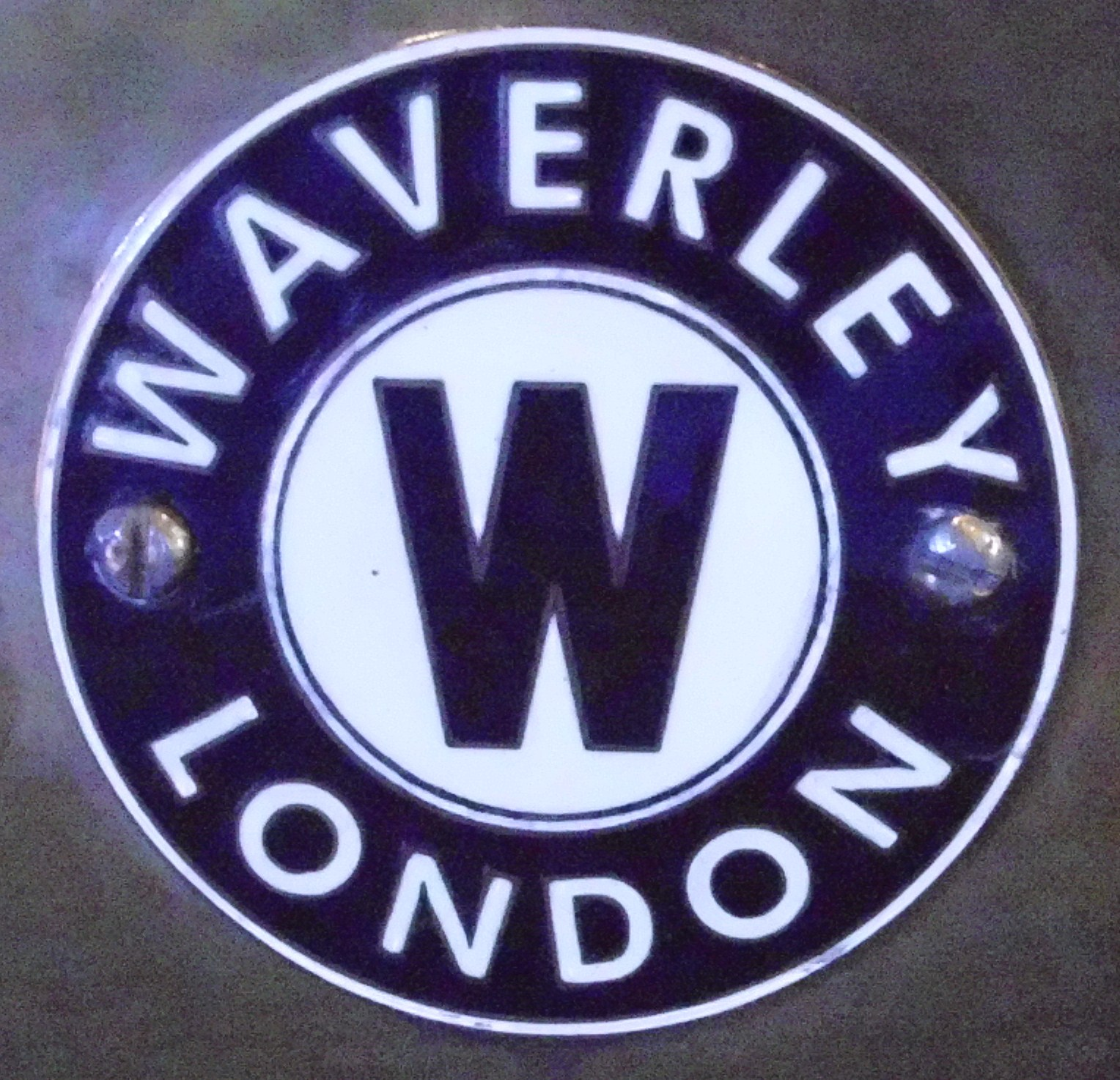 Emblem Waverley